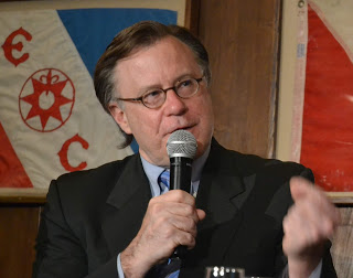 Adventurer Jim Clash speaking at The Explorers Club. The photo was taken by Stacey Severn, who holds the copyright to the photo as proven in the original source link, who has approved use on Wikipedia Commons.